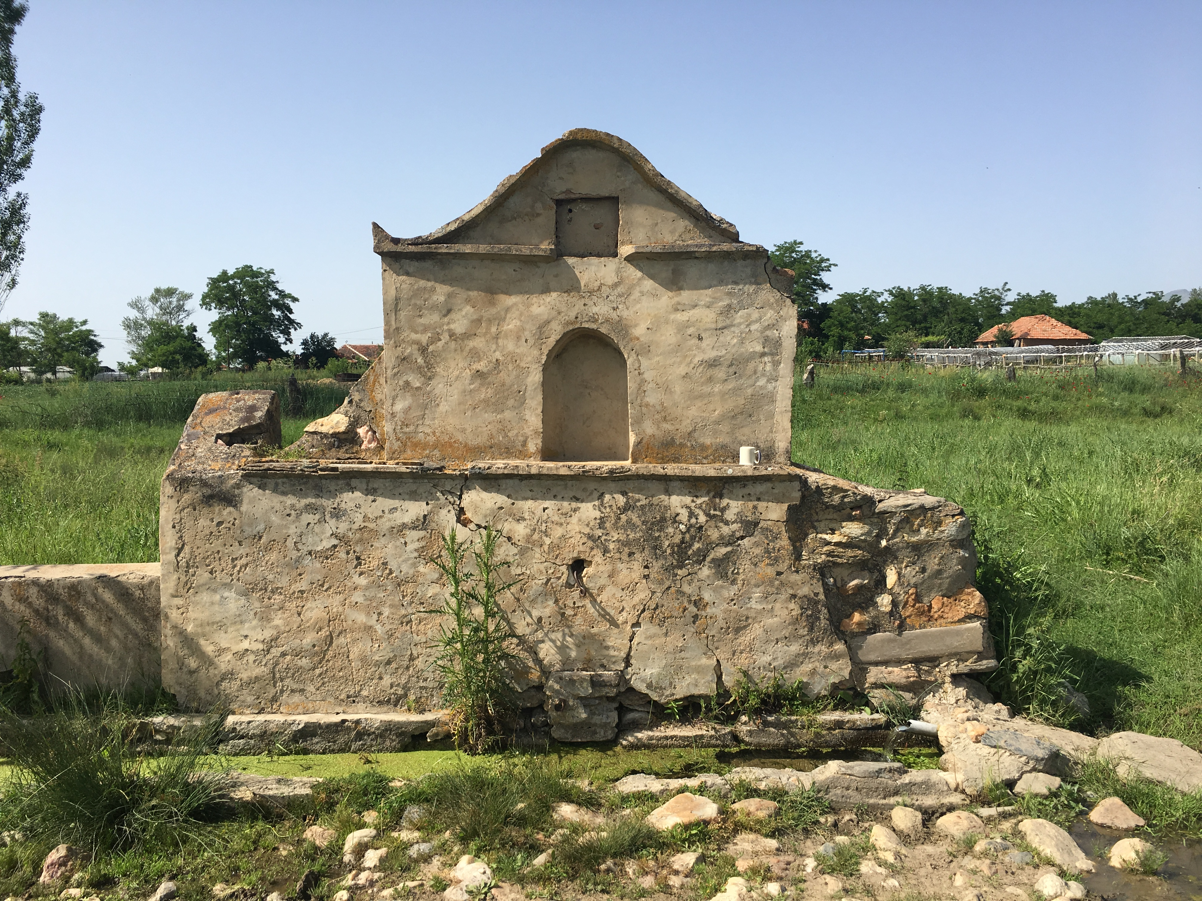 A pump in the village of Alinci